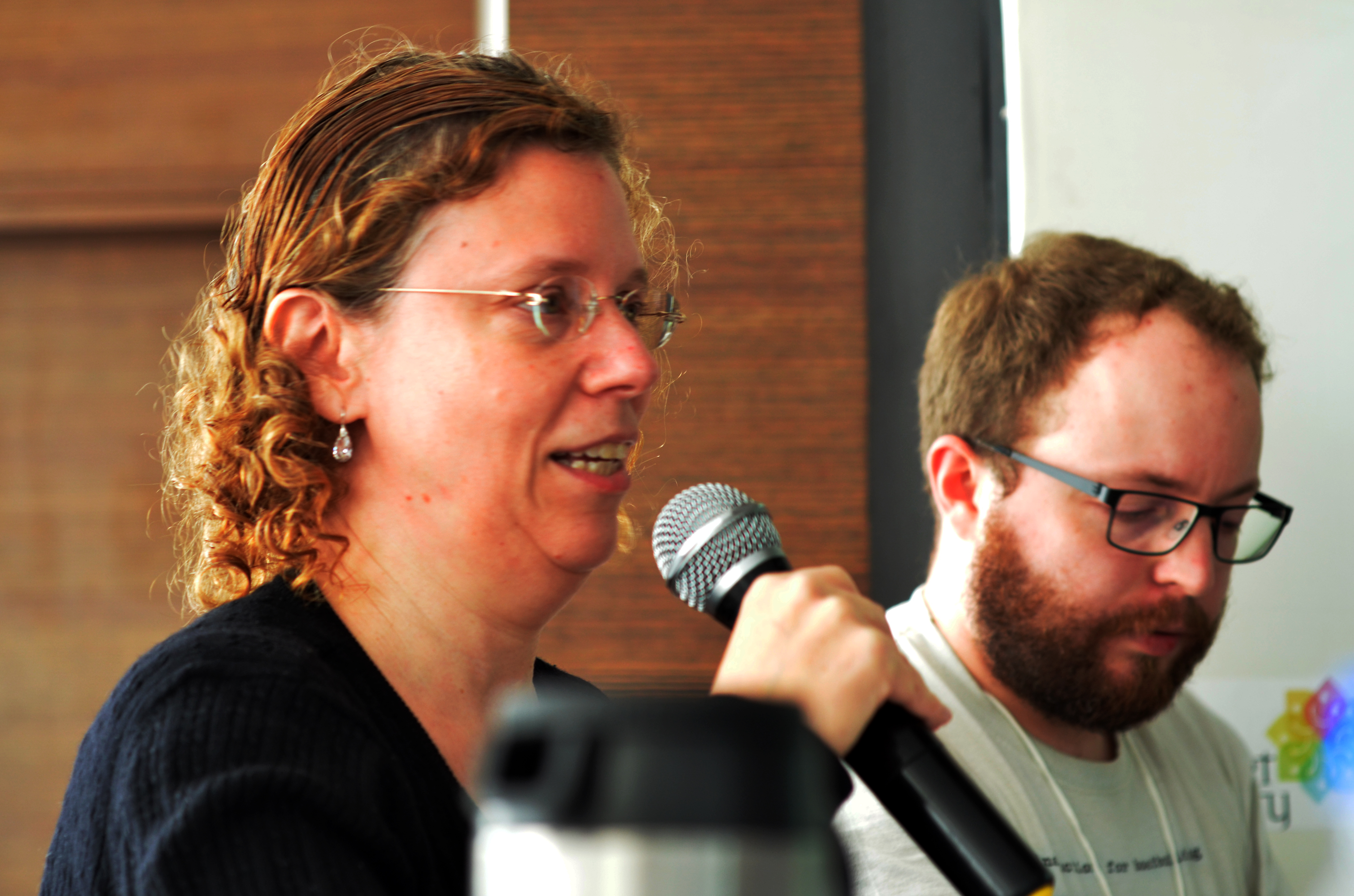 Nina Paley and Smári McCarthy during the "Free Culture" talks at Swatantra 2014. Swatantra 2014 is an International free software event organized at Thiruvananthapuram, Kerala, India.